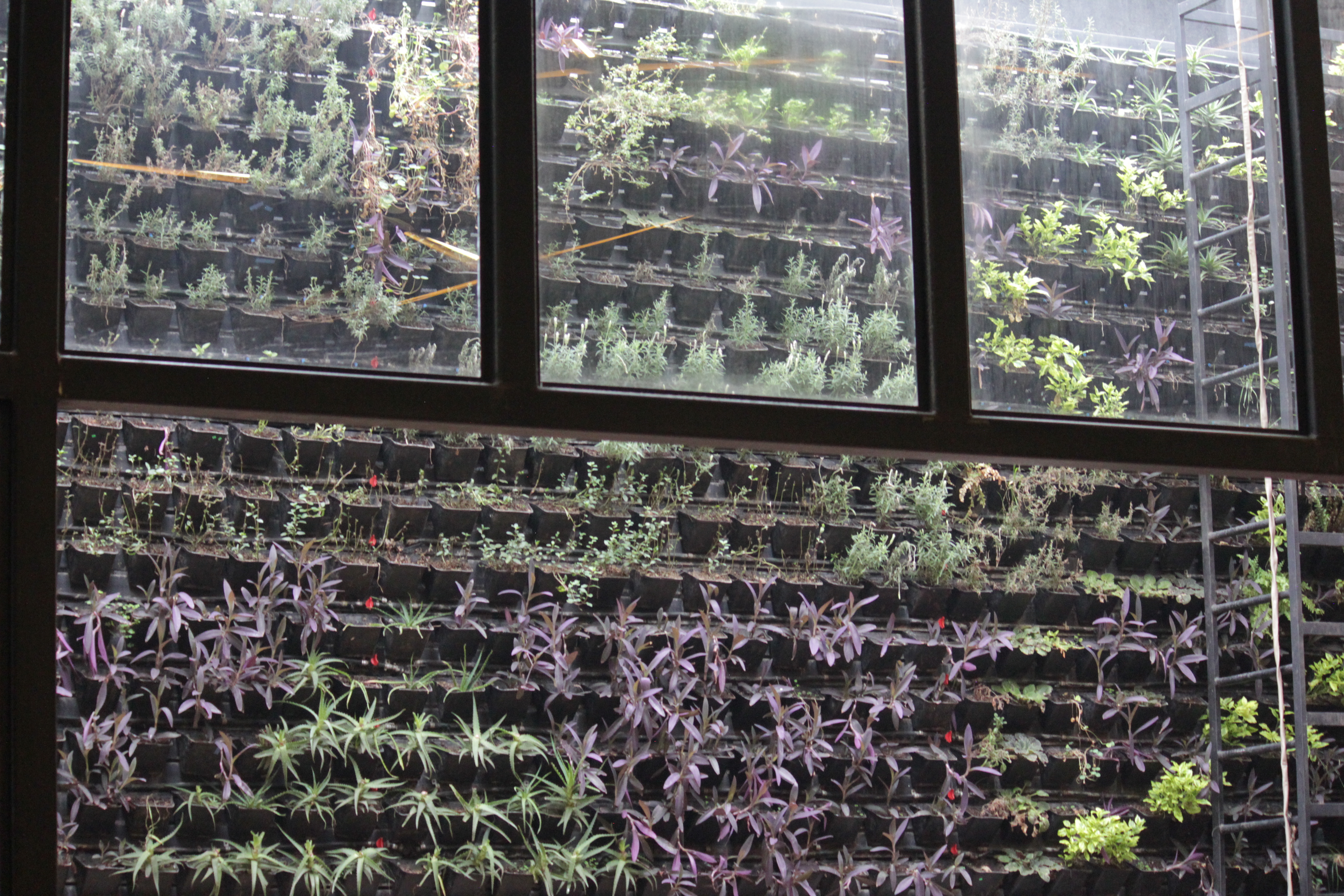 Wall decorated with pots and plants in two colors in Mercado Roma located in Col. Roma, Mexico City.